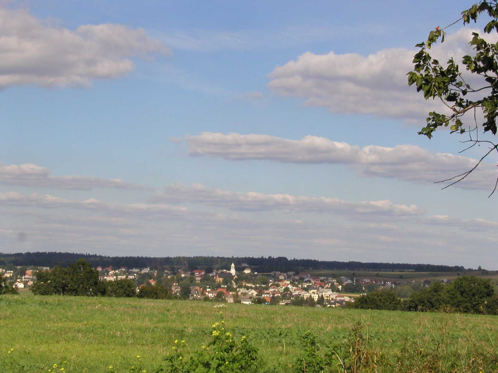 Kozmice (view from Jilešovice)